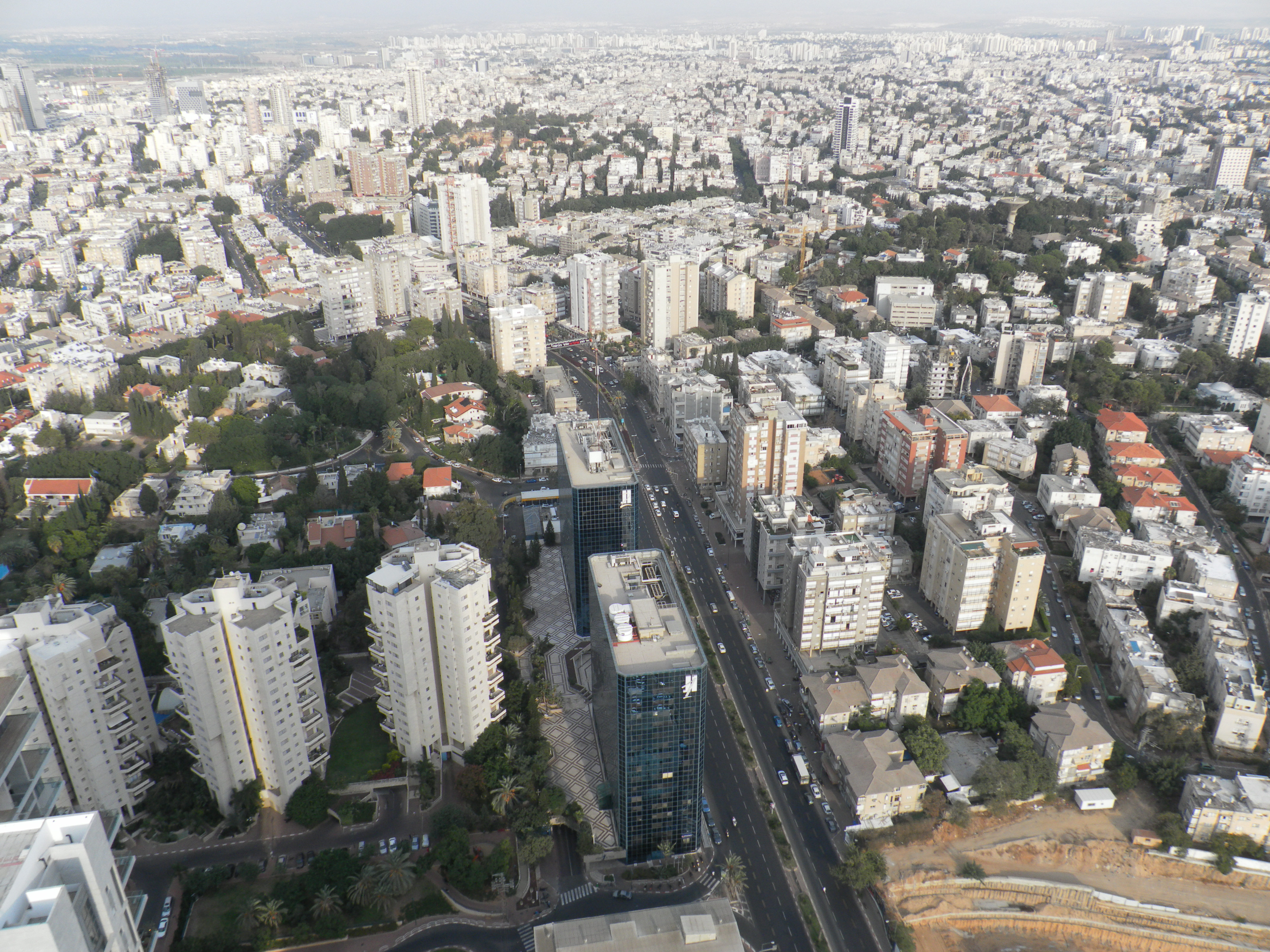 View of Ramat Gan (north) from the 56th floor of the Moshe Aviv tower